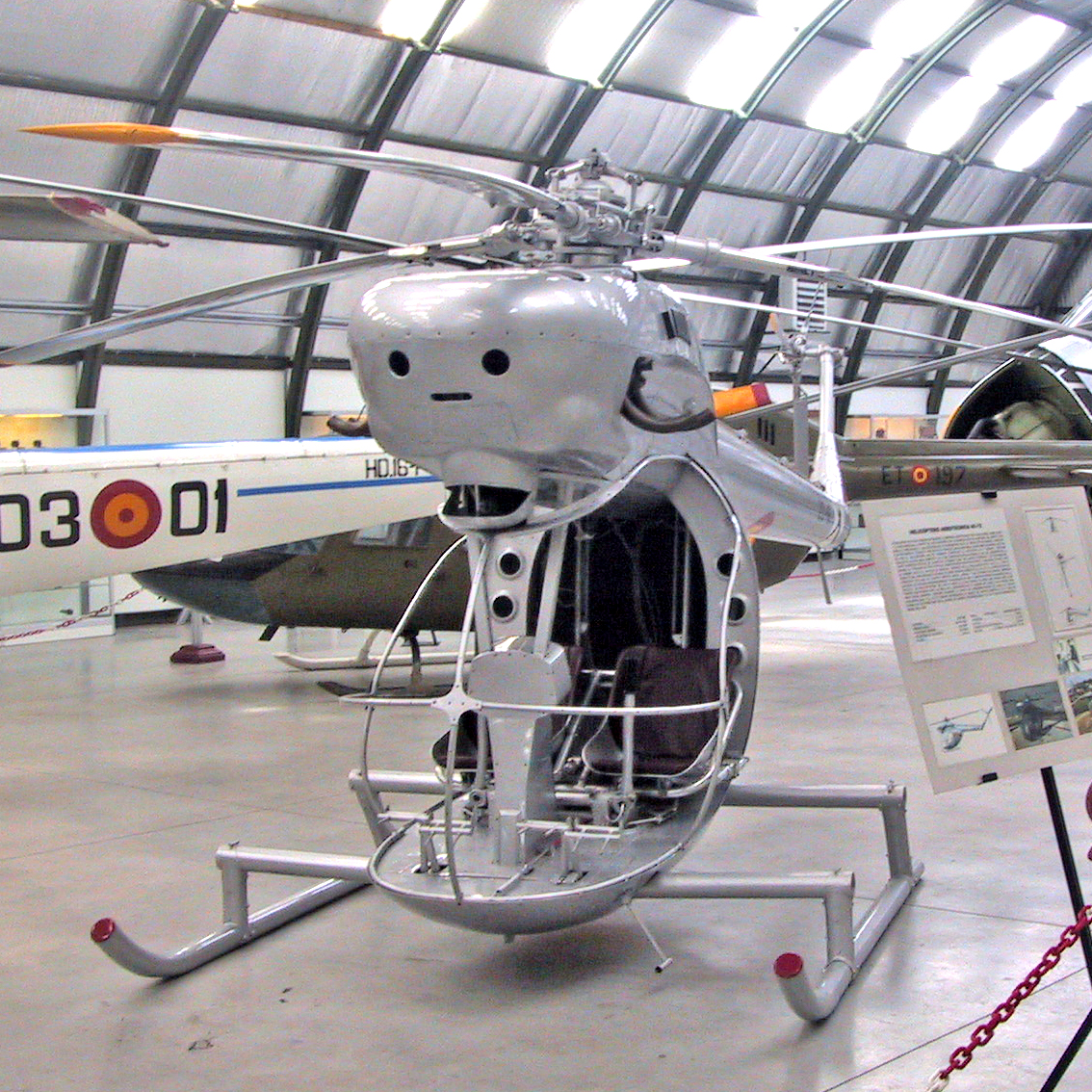 Photograph taken in "Museo del Aire", Spain. I am the author of this picture, and I'd desire everybody could see it freely in Wikipedia. Dabrio 00:23, 9 August 2007 (UTC)